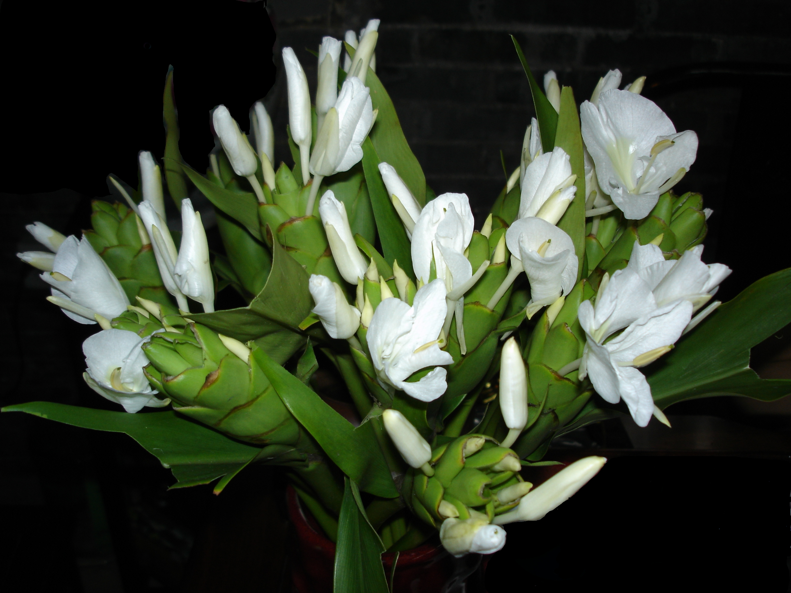 Bouqet of Hedychium coronarium, Guangzhou, China